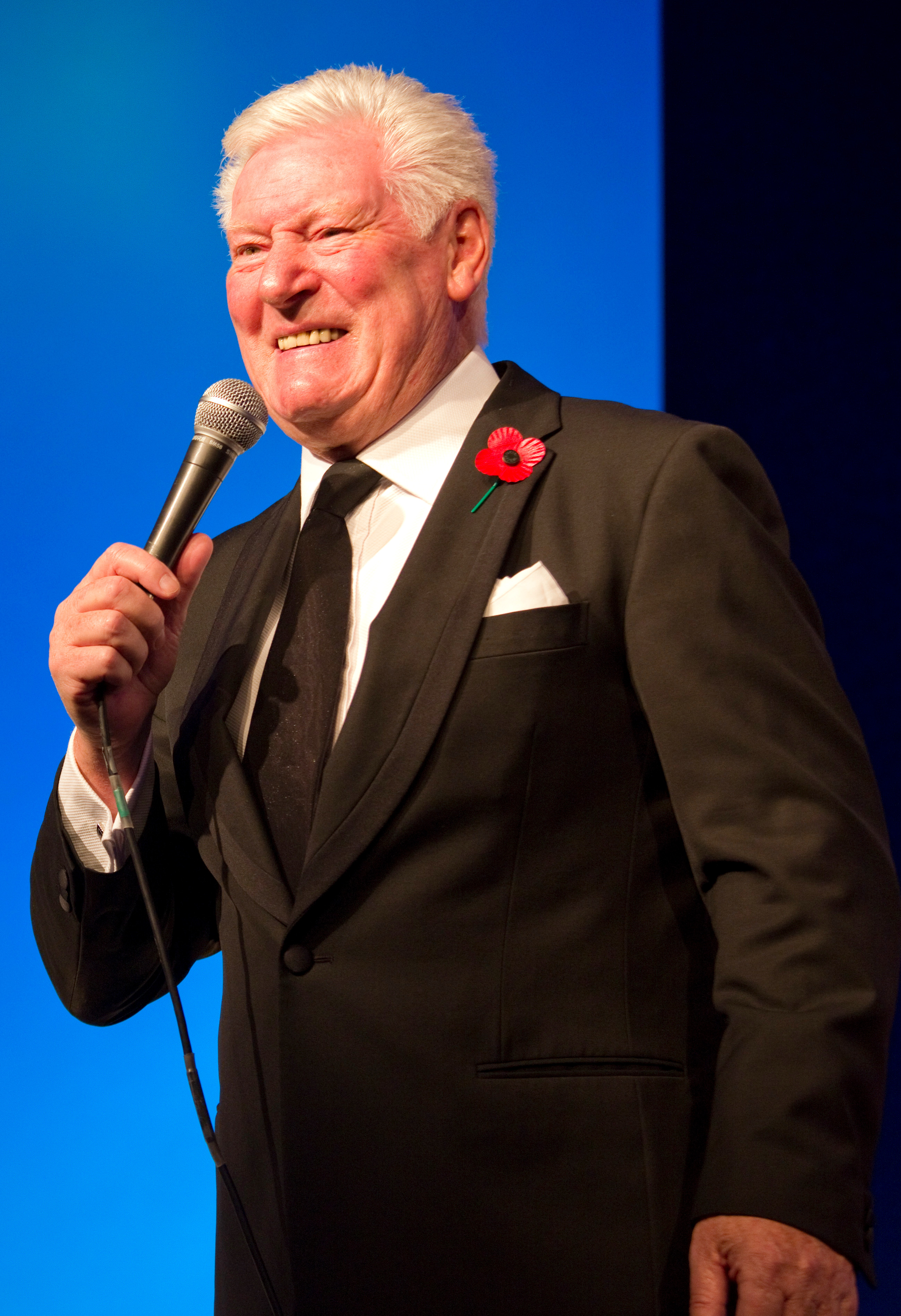 crop of Roy Walker from photo of him hosting the Garden Retail Awards 2012